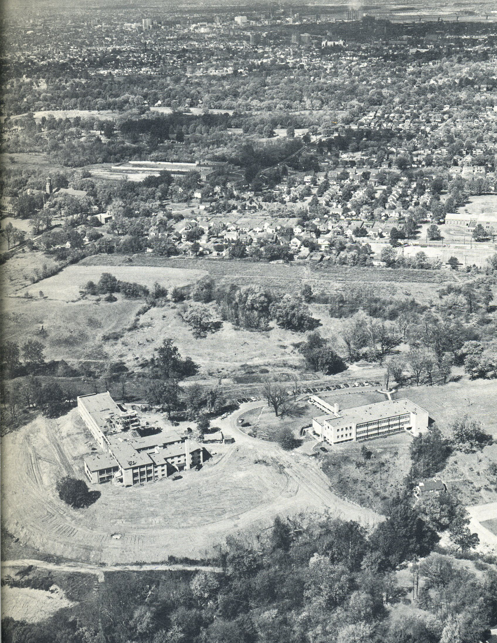 Aerial view of Bellarmin University Campus in 1954